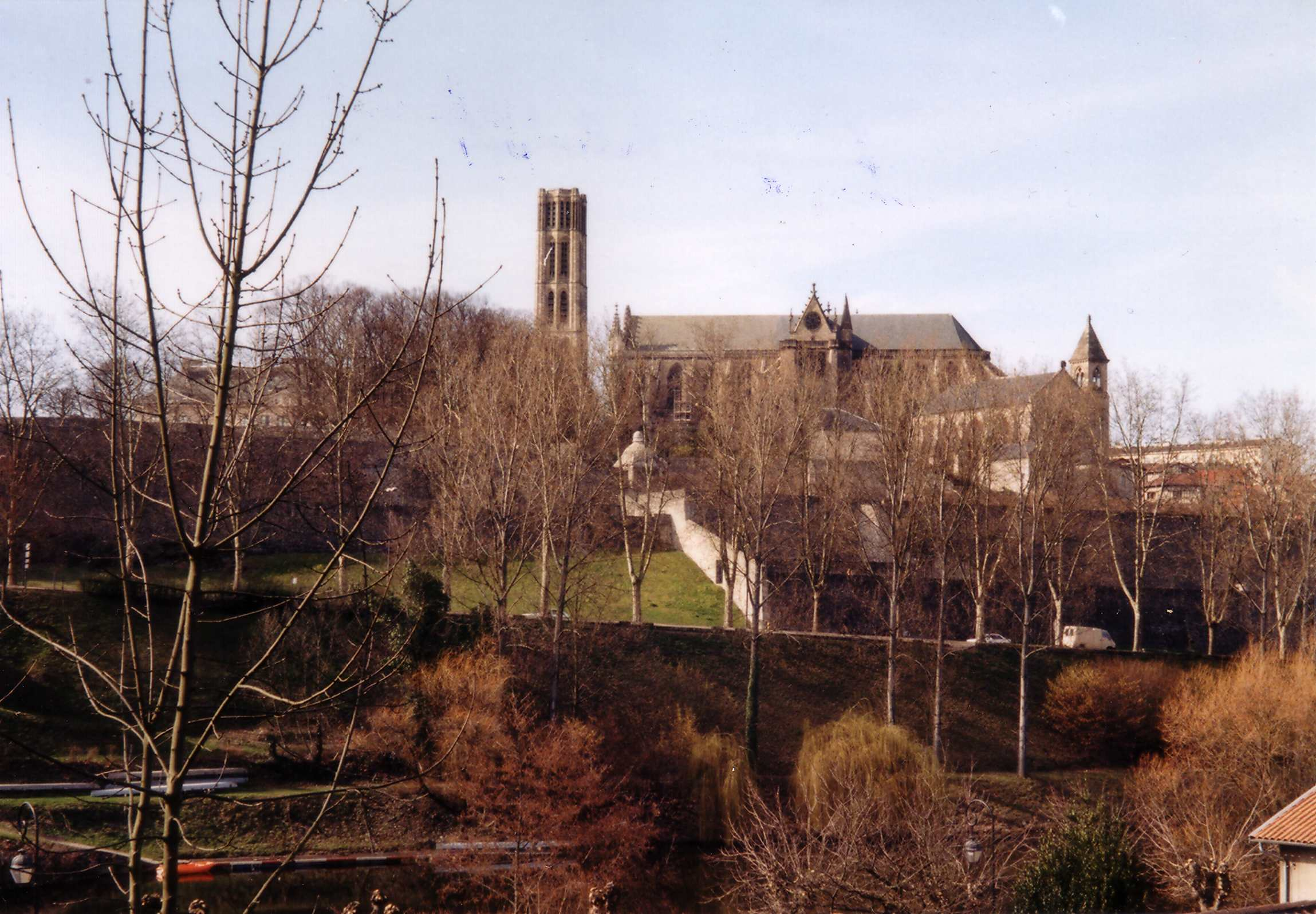 Cathedral seen from the river Vienne